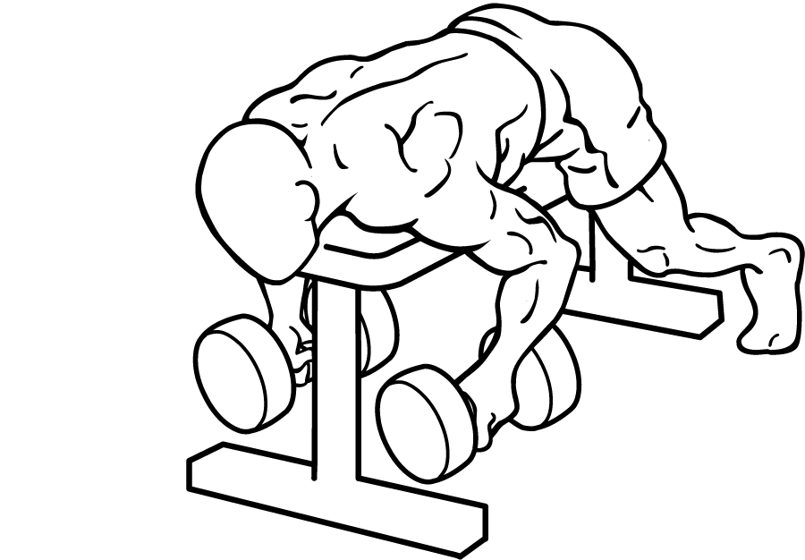 an exercise of shoulder